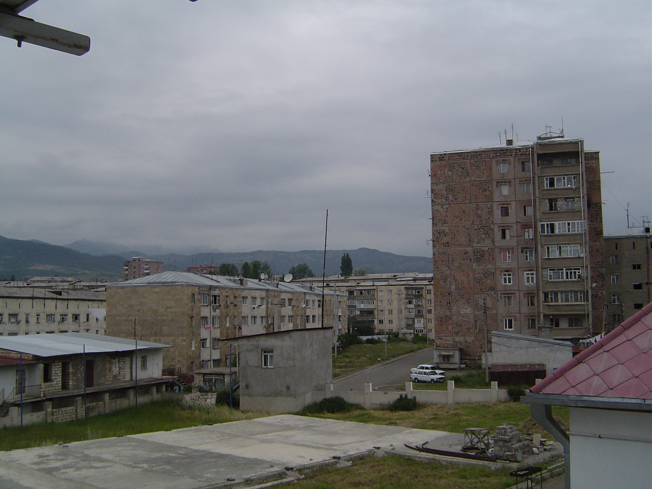 Soviet era apartment buildings in Stepanakert, NKR. Photo taken by Marshal Bagramyan.